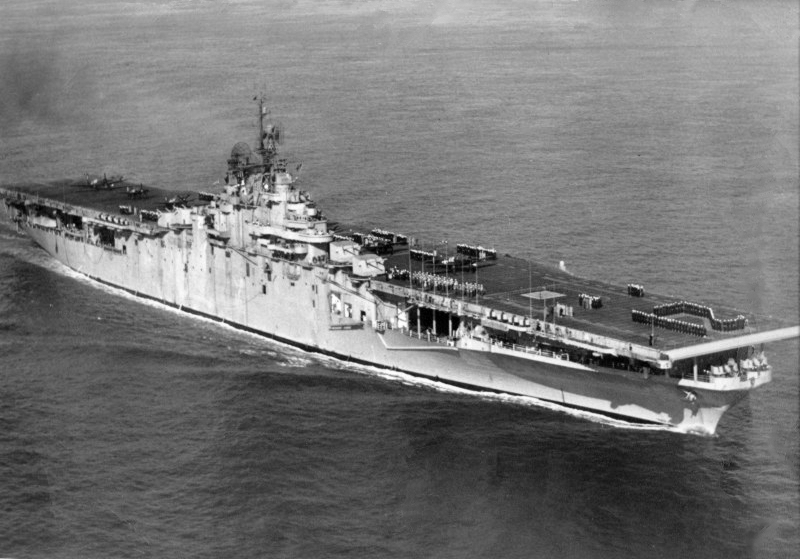 The U.S. Navy aircraft carrier USS Boxer (CV-21) underway, circa in 1948.